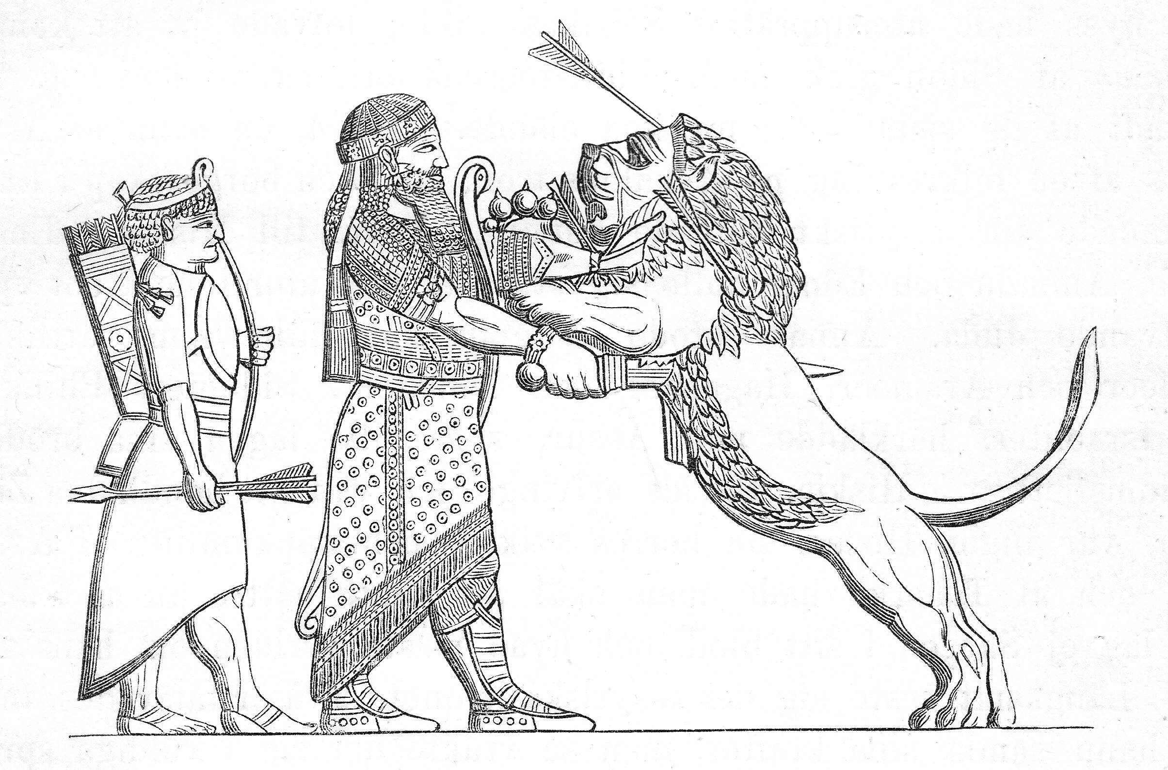 Illustration from "Illustrerad verldshistoria utgifven av E. Wallis. volume I": Ashurbanipal on lionhunt.